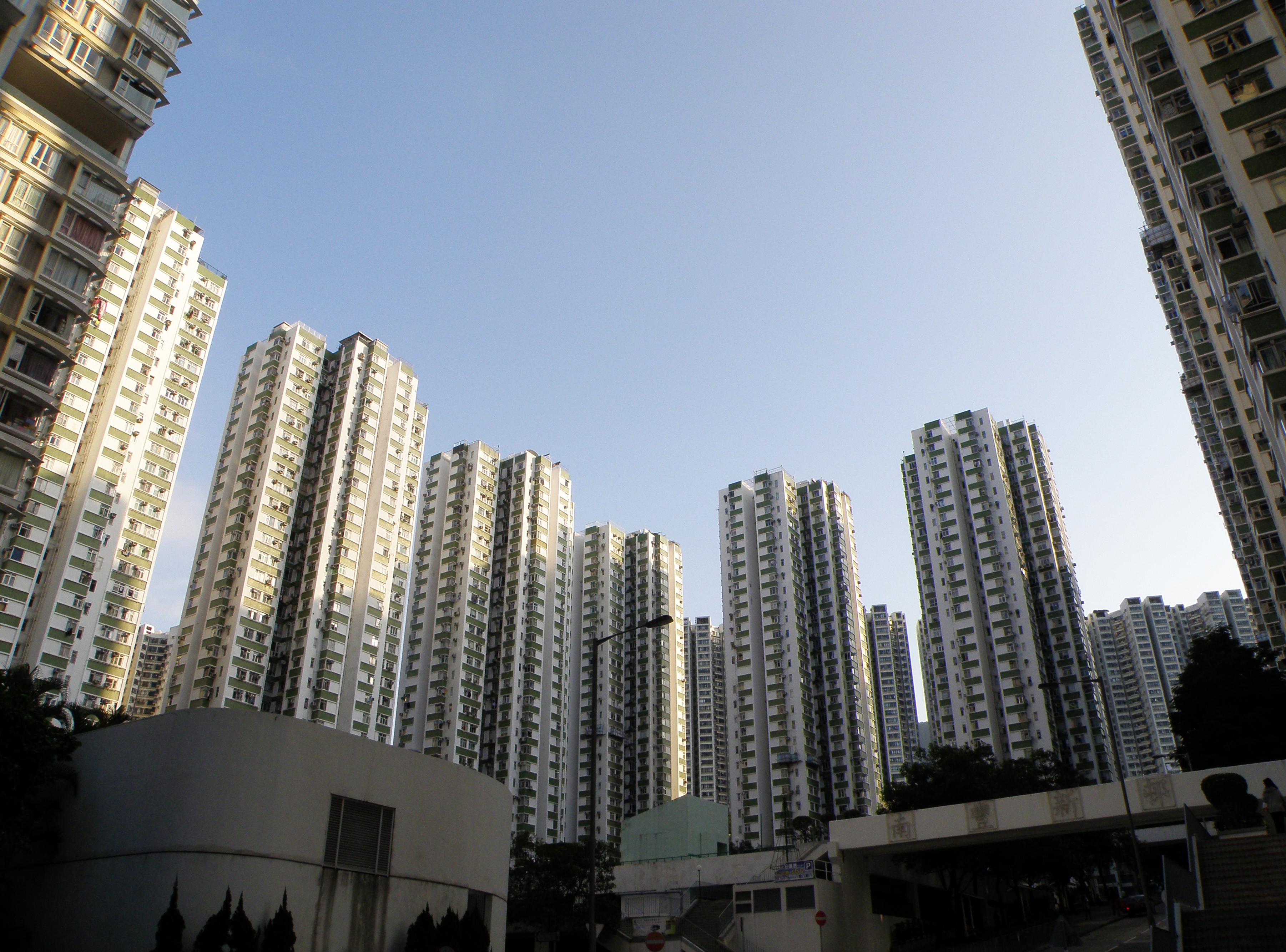 Nan Fung Sun Chuen in Tai Koo, Hong Kong.